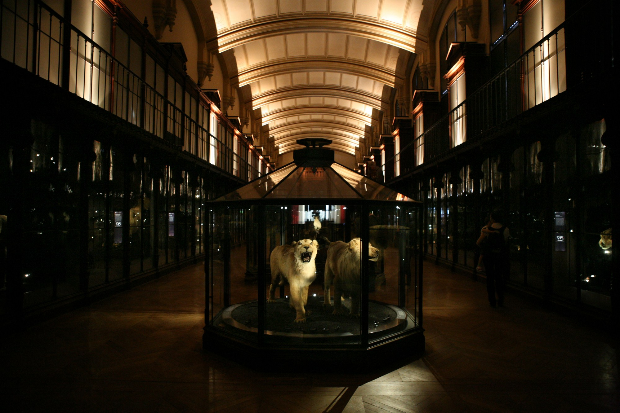 Grande Galerie d'Evolution of the National Museum of Natural History in Paris - Room of threatened or extinct species.